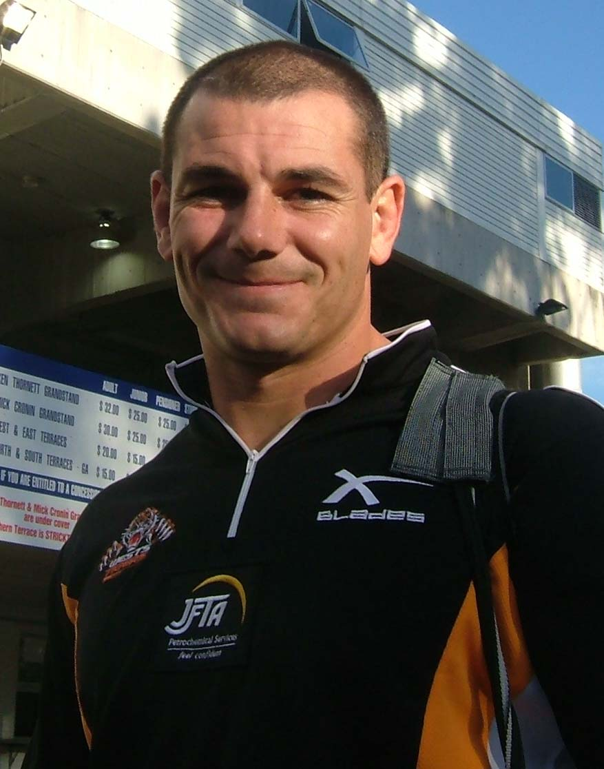 Wests Tigers forward Ben Galea at Parramatta Stadium 2005.